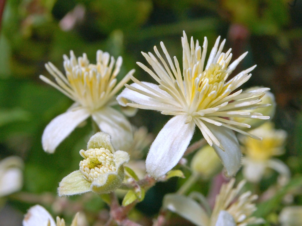 Clematis vitalba - S. Bernardo, Genova, Italy